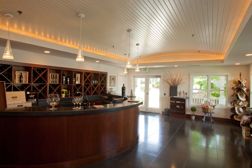 Twomey Cellars, Calistoga.